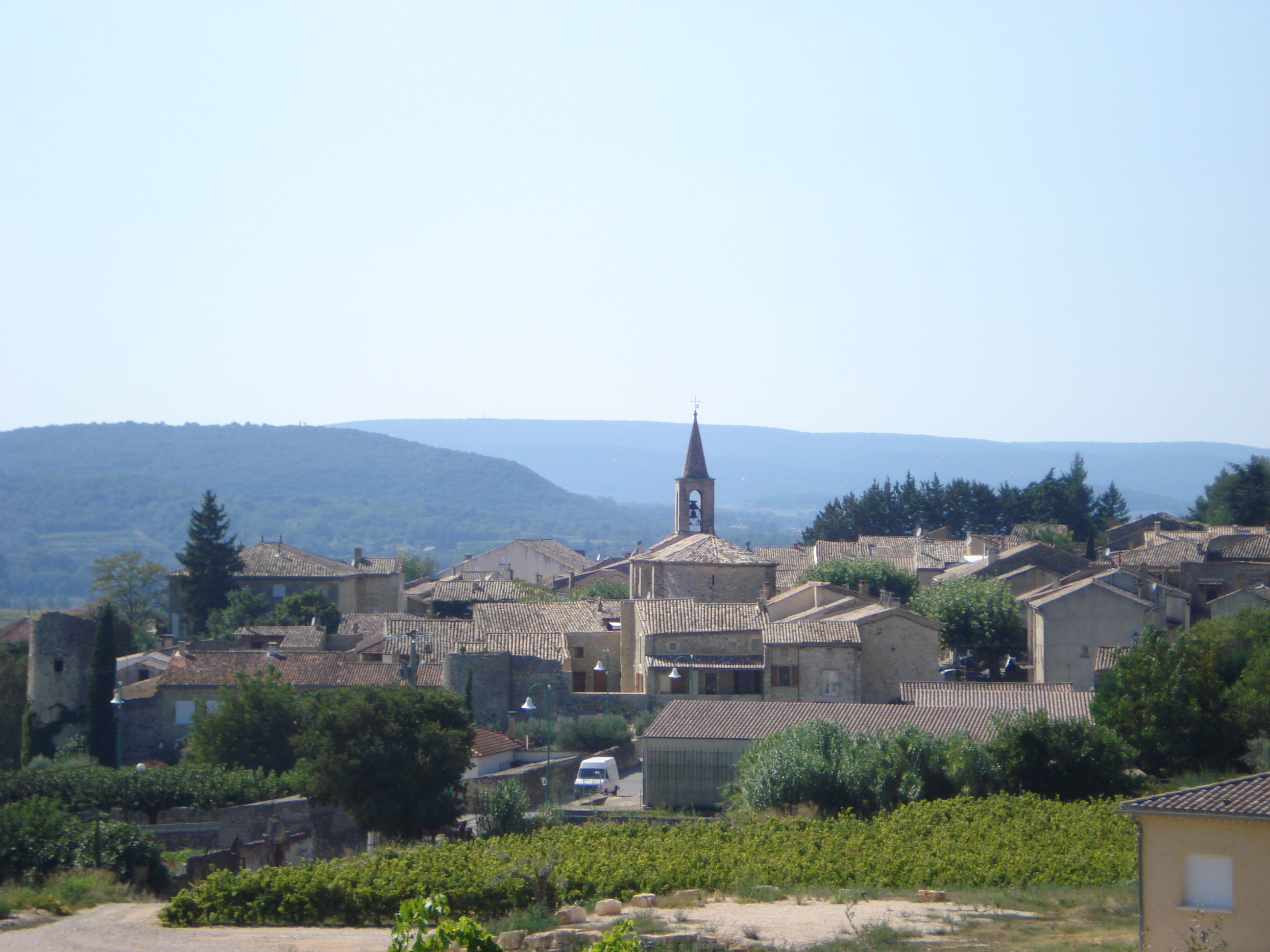 Picture of the French town St. Michel d'Euzet